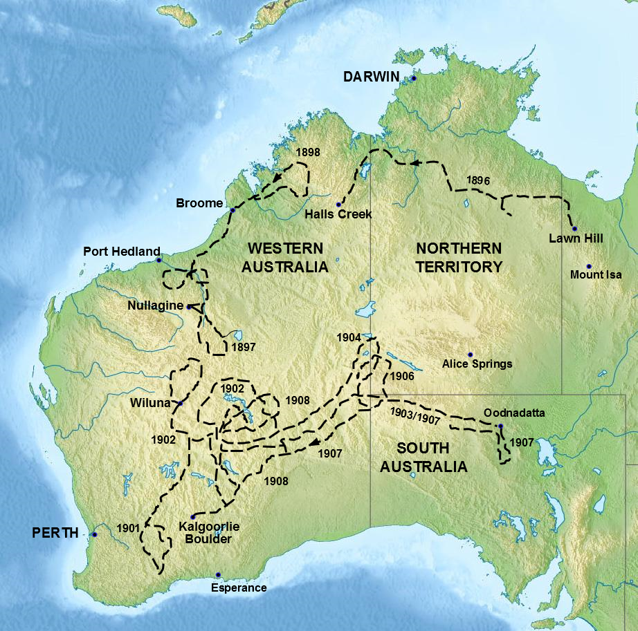 Expeditions of Australian explorer Frank Hann. Adapted from a diagram in Do not yield to despair: Frank Hann diaries by Mike Donaldson & Ian Elliot, Australian map image by User:Виктор В